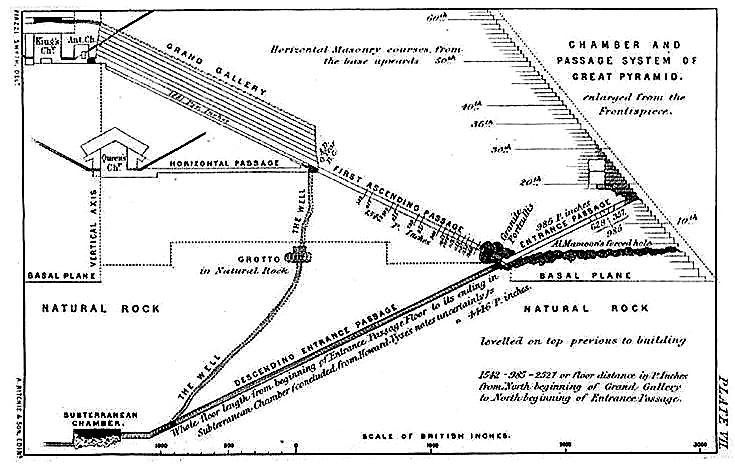 Plate VII from Charles Piazzi Smyth: Our Inheritance in the Great Pyramid. 3rd, much enlarged edition. London 1877.